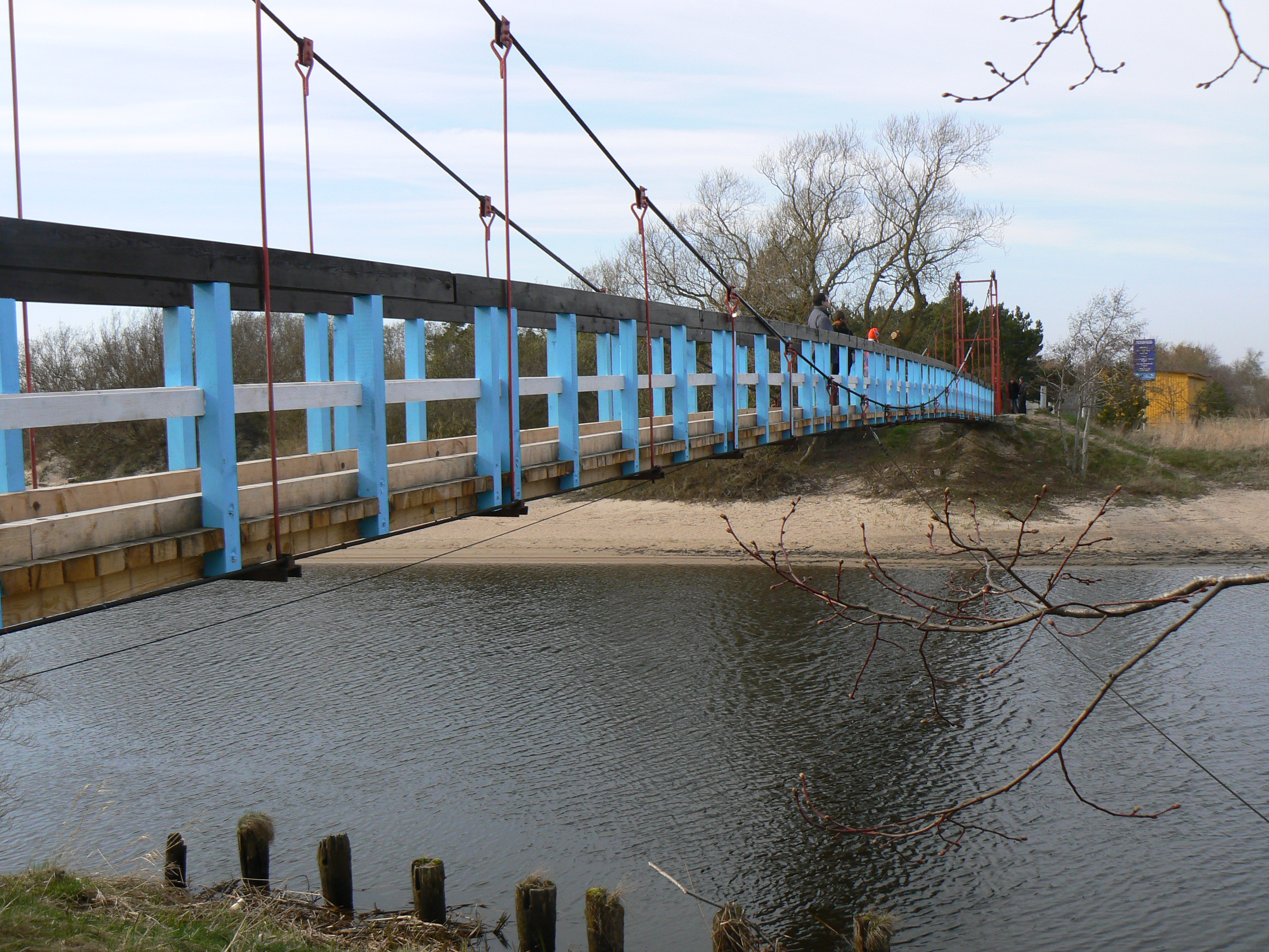 "Monkey's" bridge in Šventoji crossing the River Šventoji.